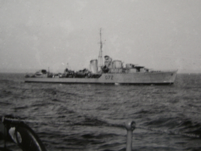 HMS Scorpion, taken from HMS Kelvin during Operation Overlord when both ships were standing off Sword Beach.